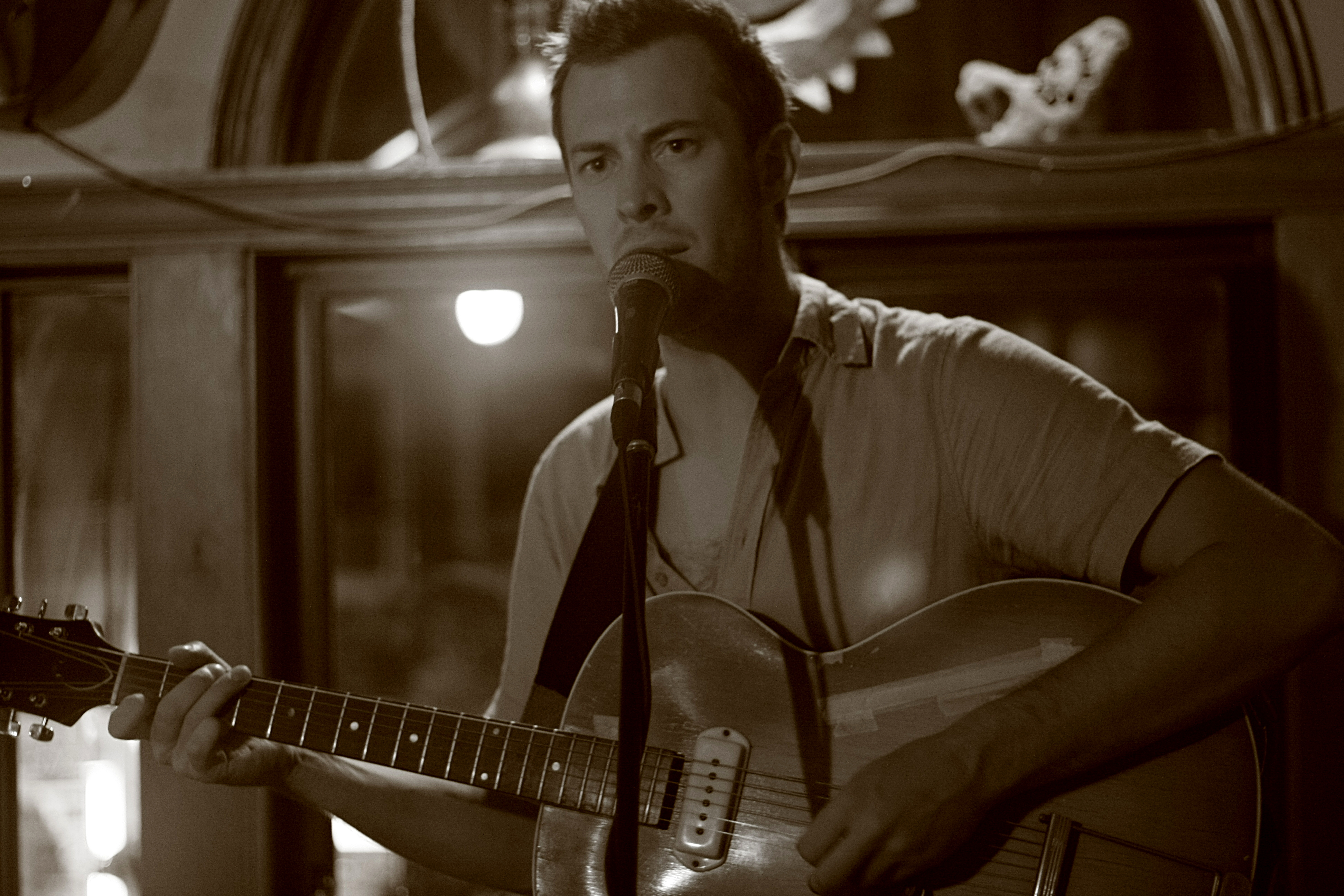 Matthew Barber at Baba's Lounge in Charlottetown.